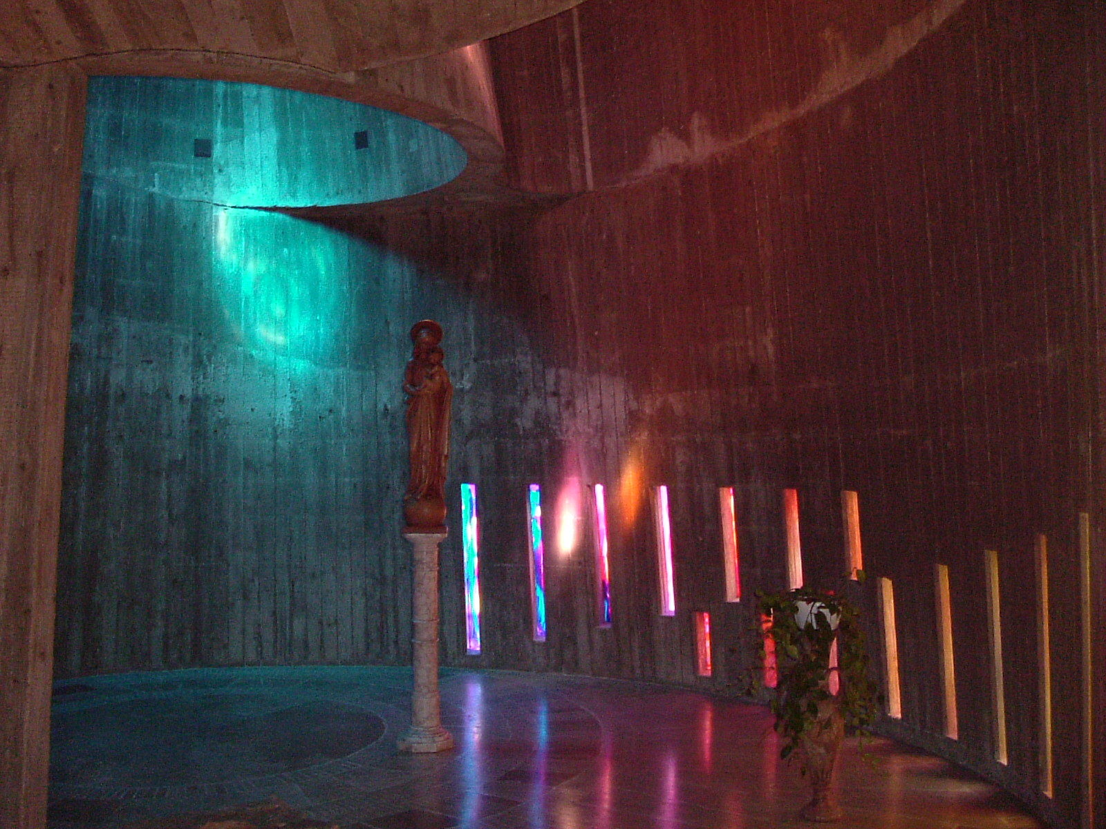 Interior view of the chapel "Suore della Carità e dell’Immacolata Concezione di Ivrea", via di Val Cannuta 200, Roma, Italy. (Built 1971-73 by Silvio Galizia)